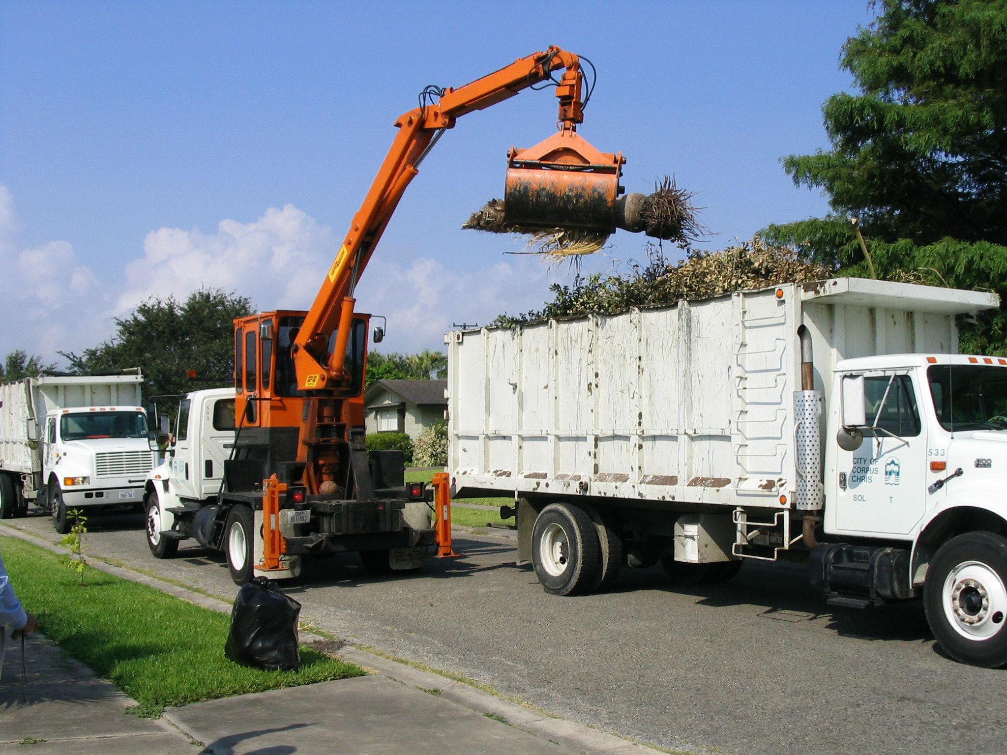 Lightning Rear Steer picks up bulky waste in Corpus Christi Texas.